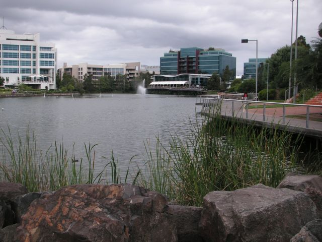 Lake in the middle of Norwest Business Park